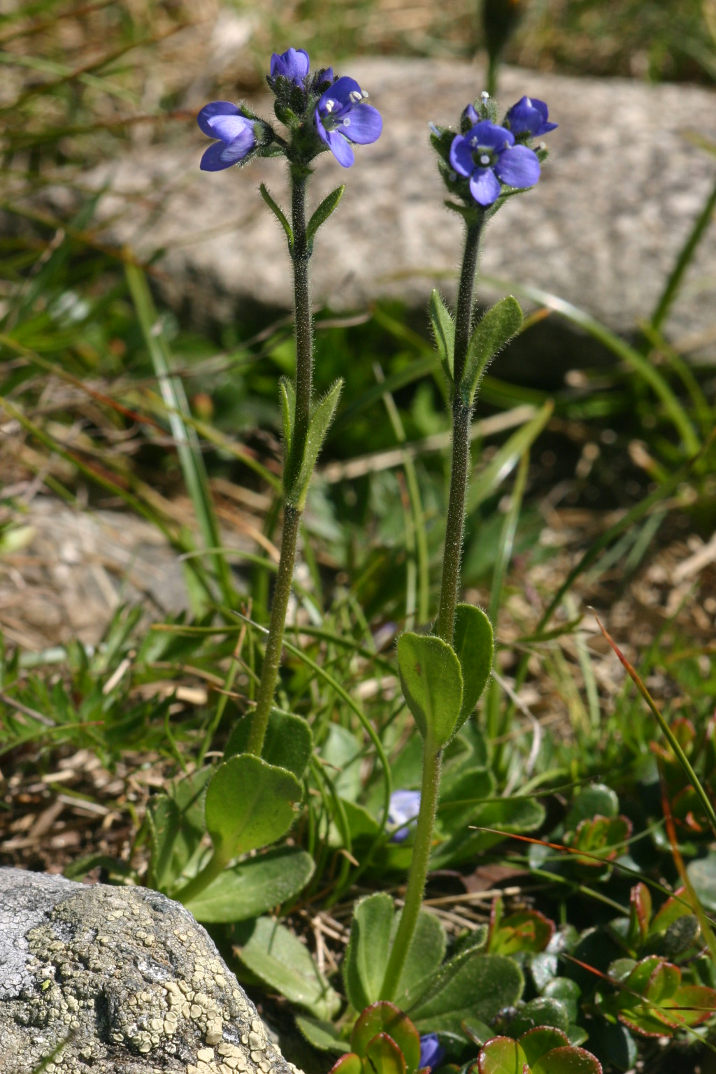 Veronica bellidioides